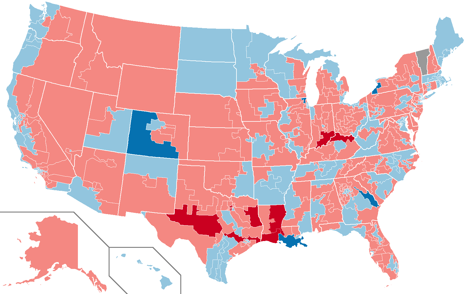 2004 House of Representatives election map Democratic hold Democratic pickup Republican hold Republican pickup Independent hold